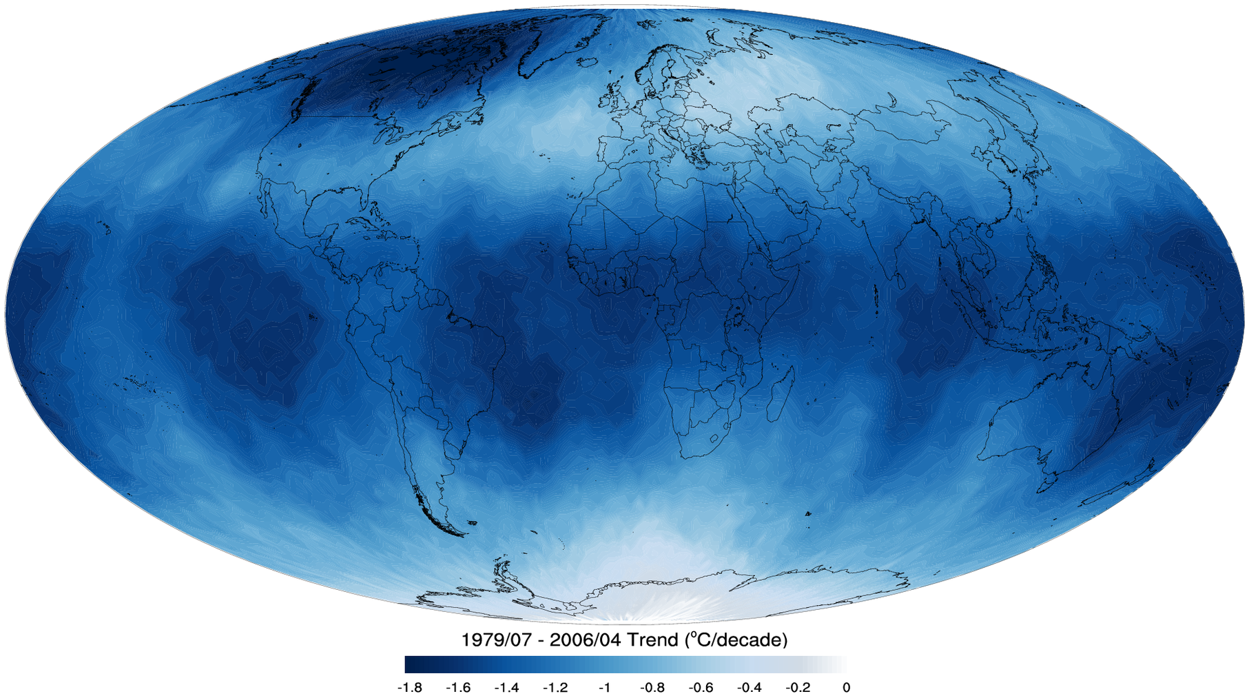 STAR TTS SSU 1979-2006 trend map. Data source:ftp://ftp.orbit.nesdis.noaa.gov/pub/smcd/emb/mscat/data/SSU_v1.0/pentad/